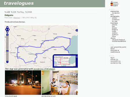 Screenshot of the Wordpress Plugin OSM